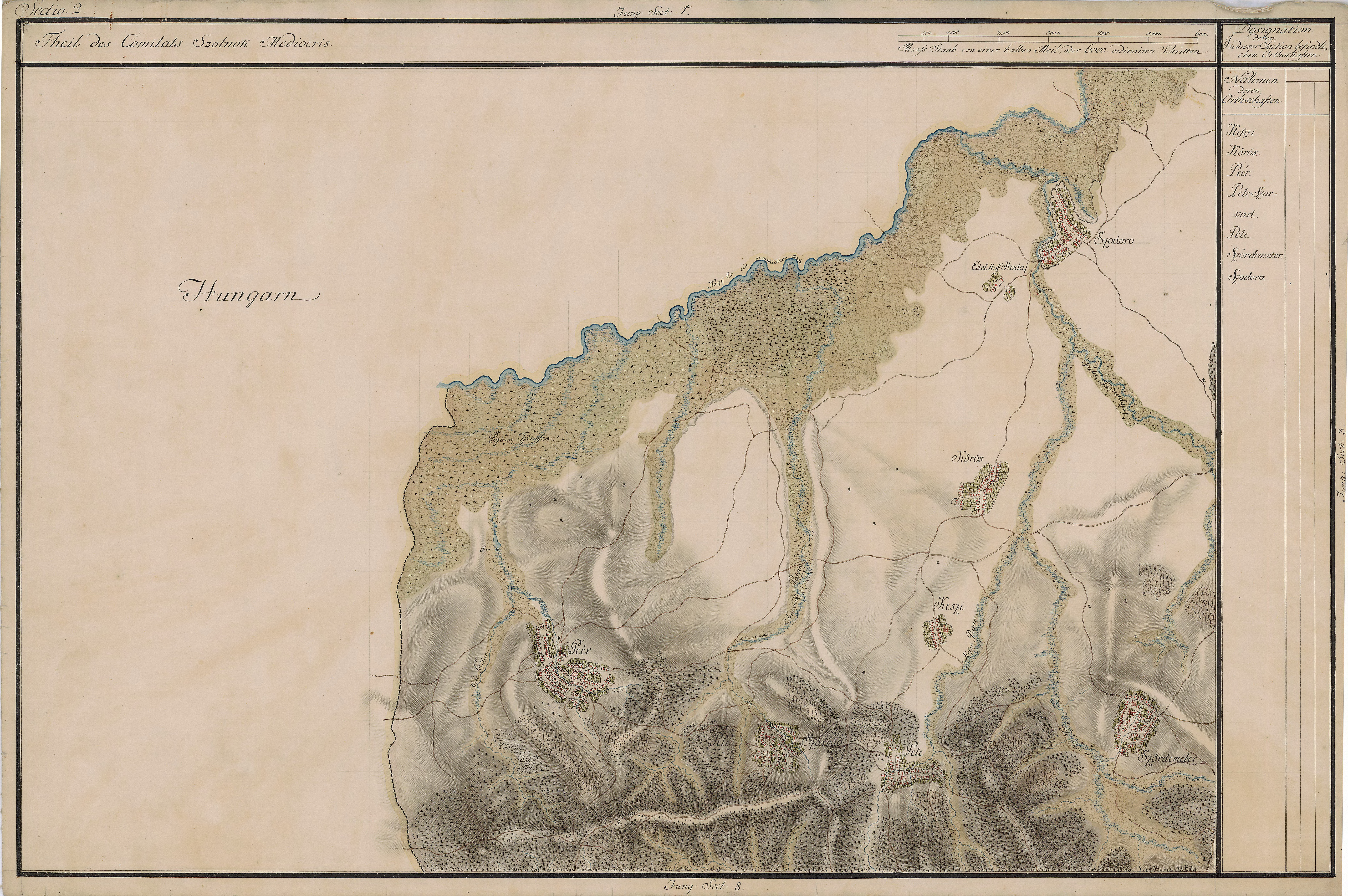 Grand Duchy of Transylvania, 1769-1773. Josephinische Landaufnahme pg.002